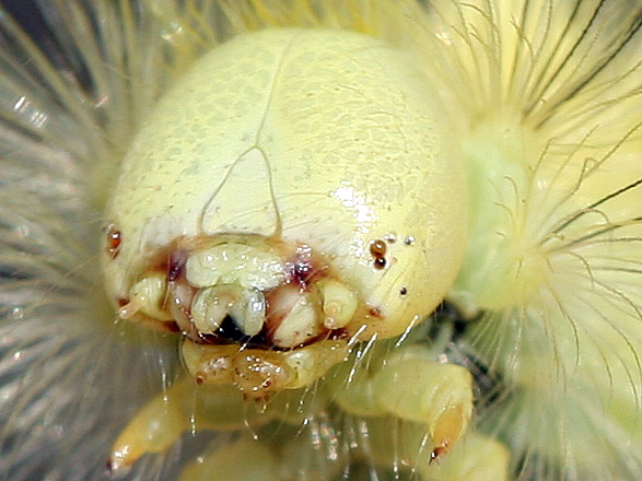 Calliteara pudibunda - head of the caterpillar